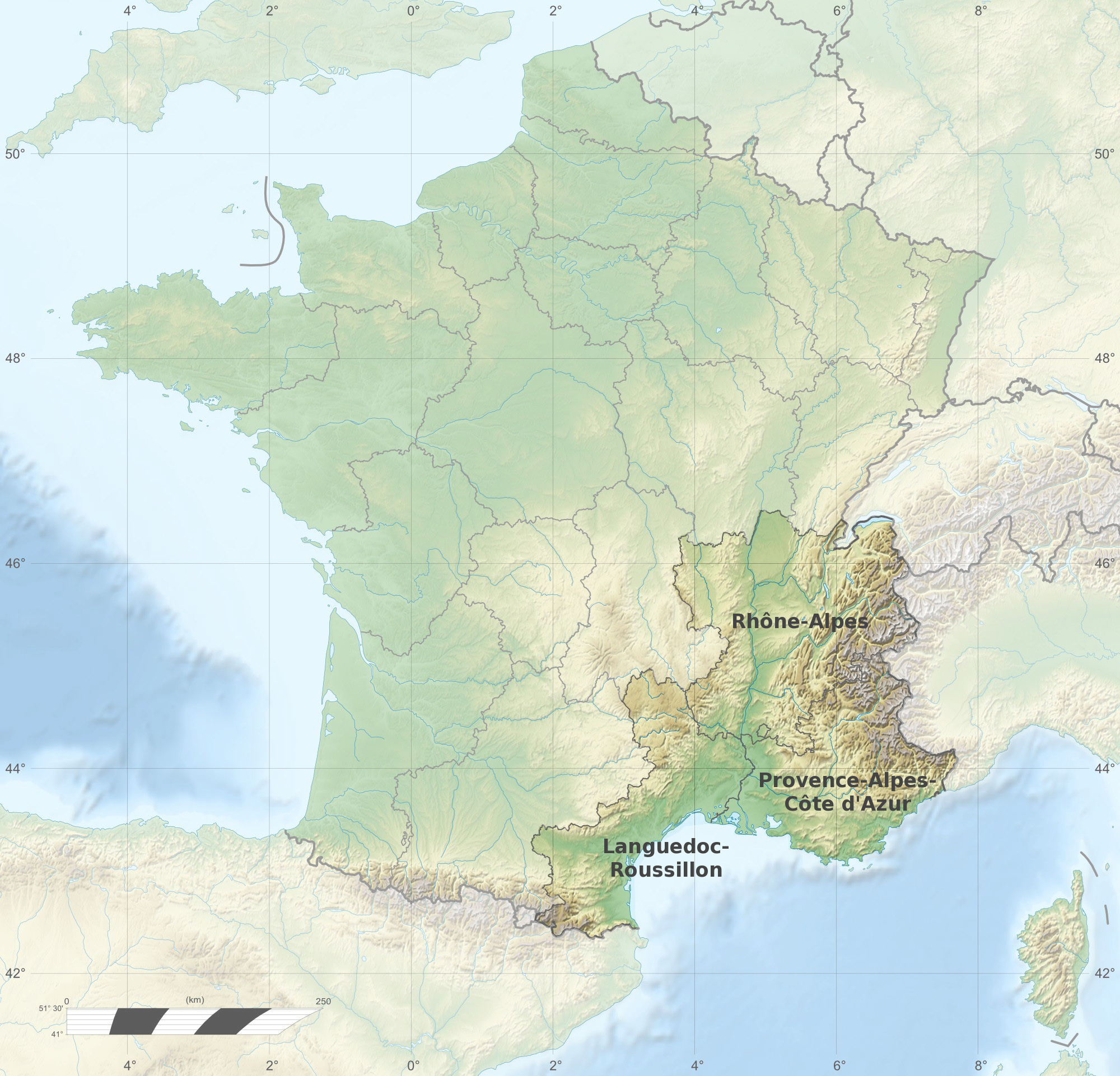 Physical map of France with South-East highlighted with regions names